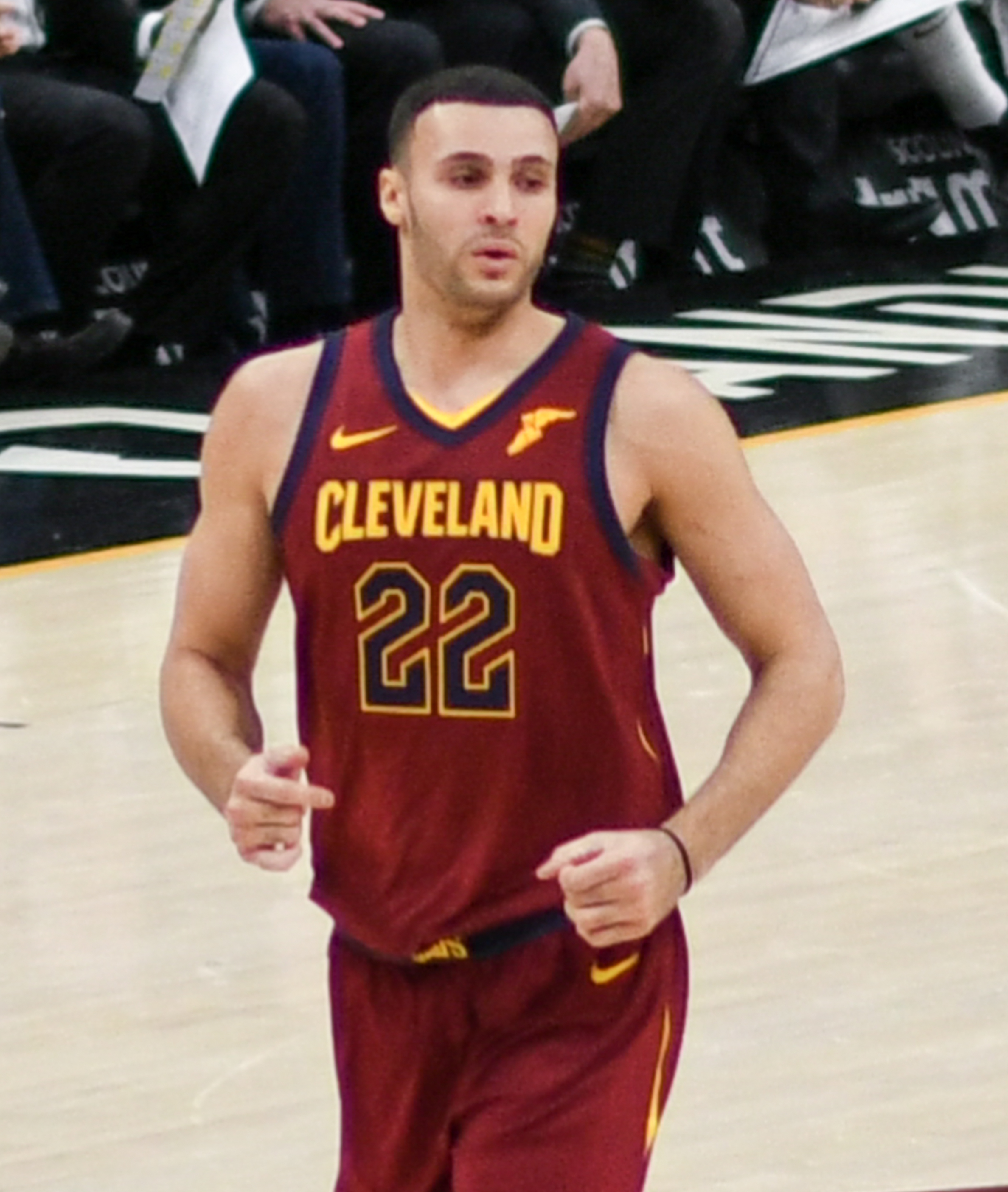 Larry Nance Jr.